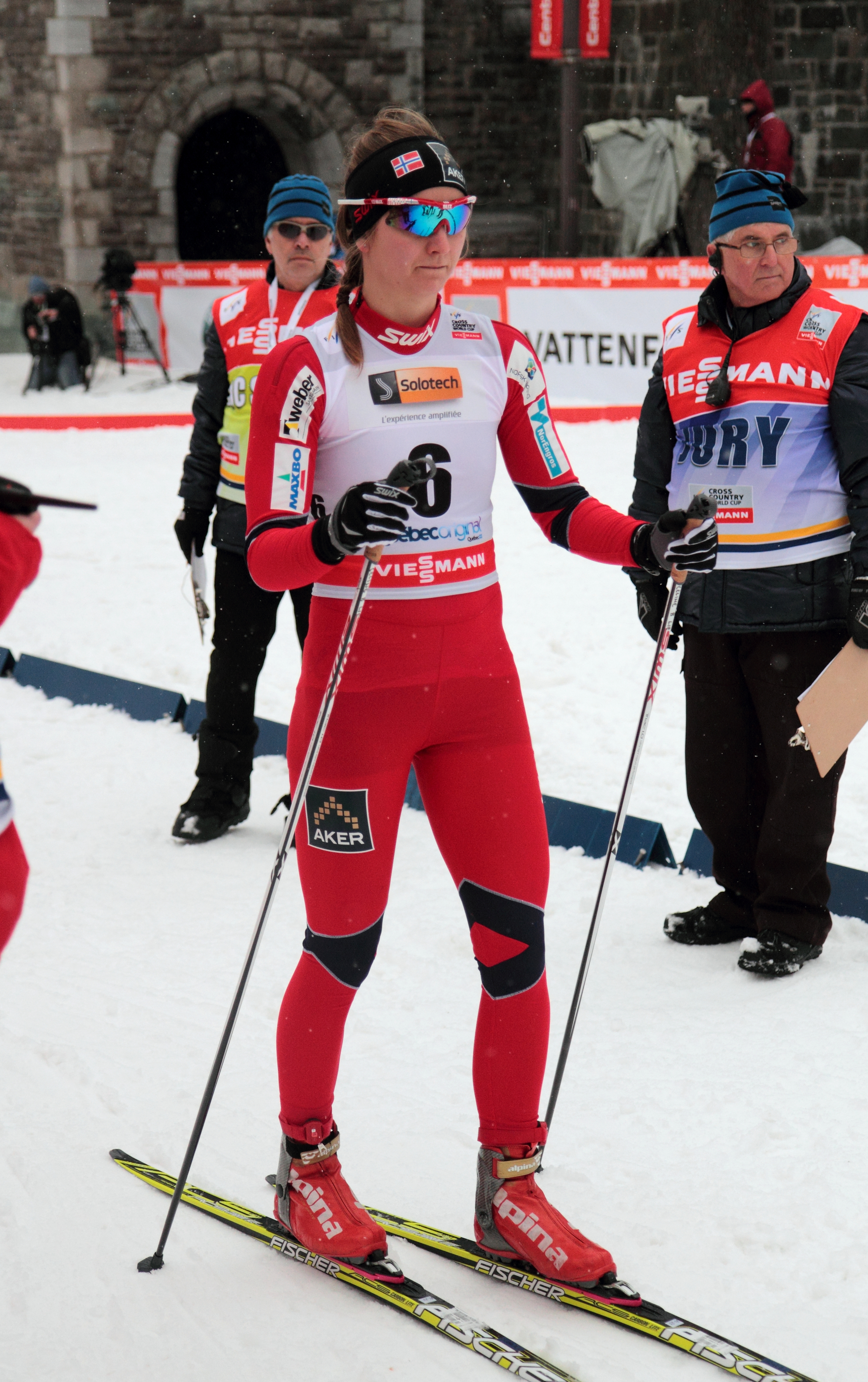 Celine Brun-Lie, FIS Cross-Country World Cup 2012, Quebec, Canada.